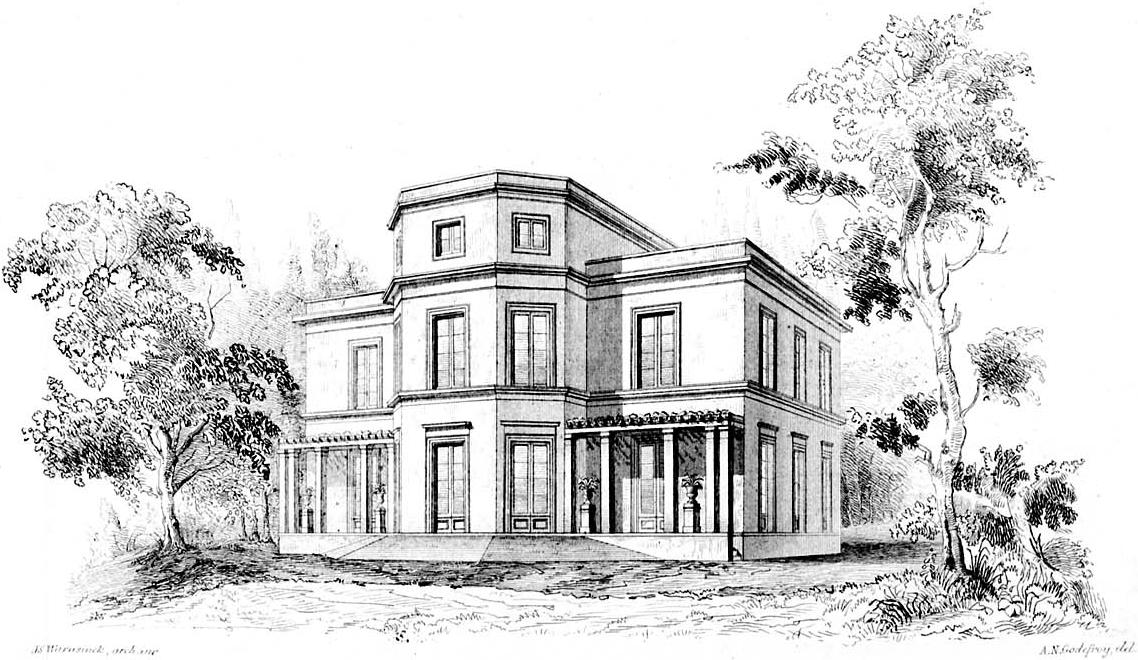 Landhuis Lindeheuvel, Overveen, perspective drawing. 1840-1841 (construction).